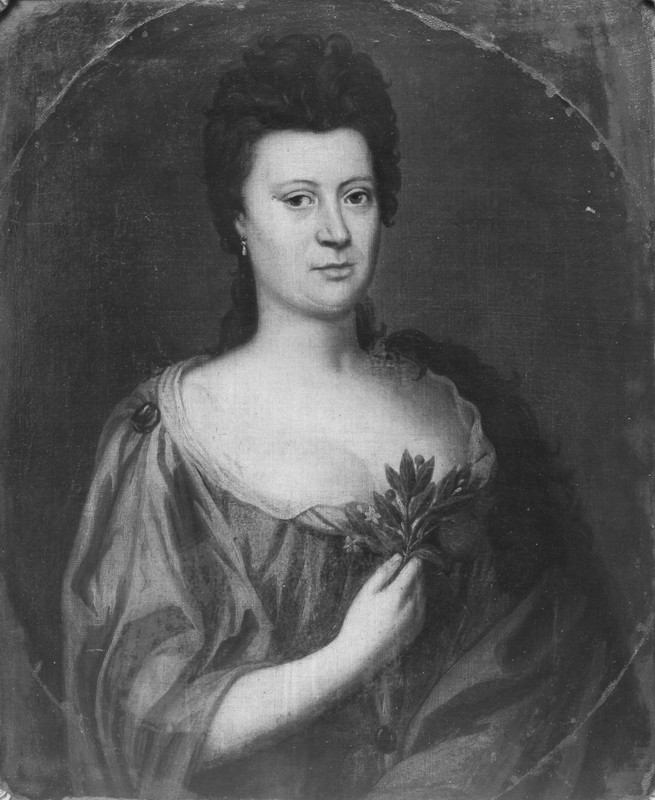 Mary Jermy (ca. 1660 - 1738) A framed oil painting, size 63 x 76 cm. Marks on the painting indicate that it was at one time in an oval frame. Mary is shown with dark brown hair and hazel eyes. She is wearing a green dress with a flame coloured cloak and a pearl earring. She is holding an orange blossom. According to tradition, Mary Jermy was painted in the gown which she wore when she had an audience with Queen Anne. The painting was owned by the Rev. Frank S Bennett (1866 - 1947), the Dean of Chester.